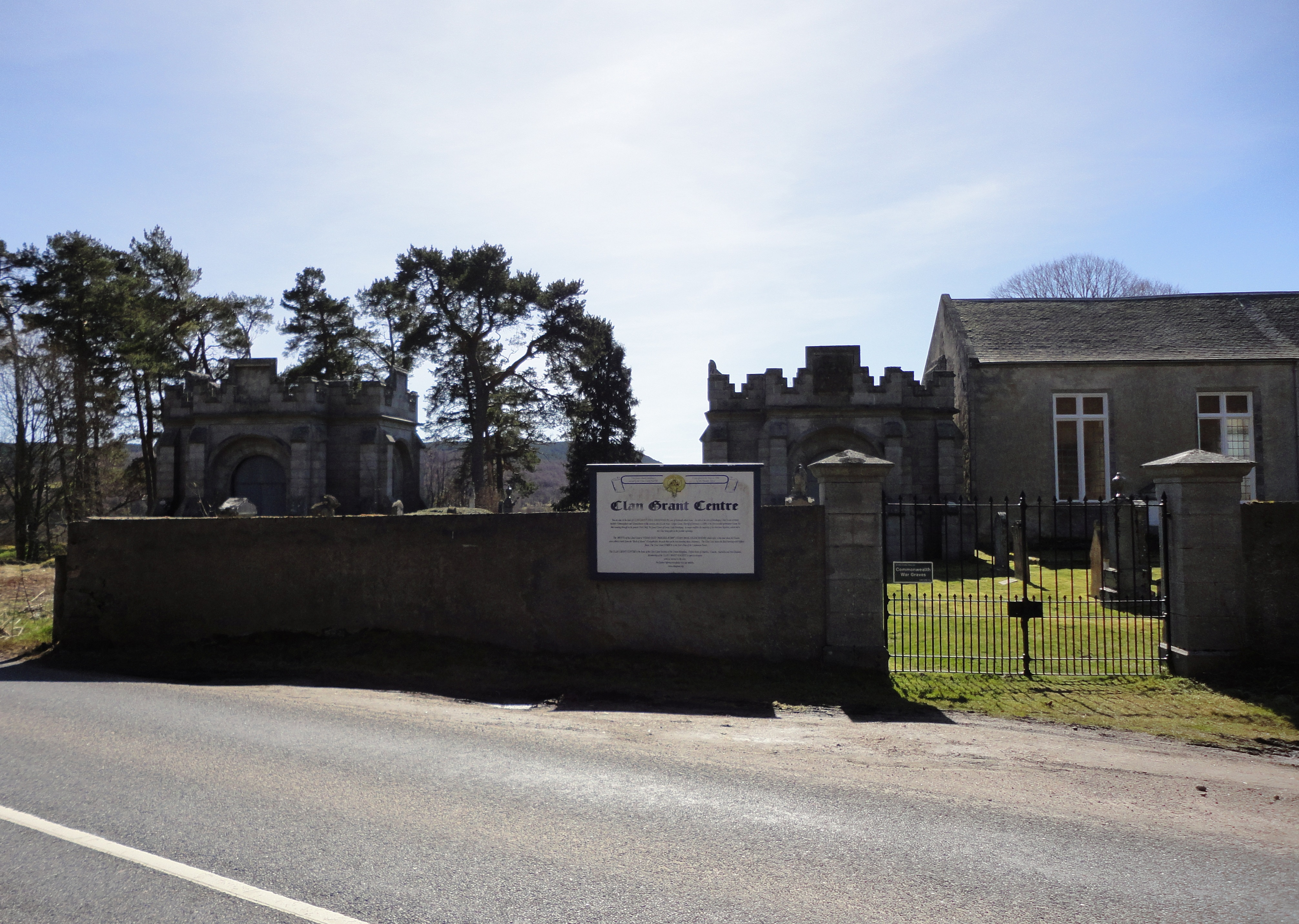 Duthil Old Parish Church and Churchyard (near Carrbridge in Inverness-shire, Scotland): View from the street